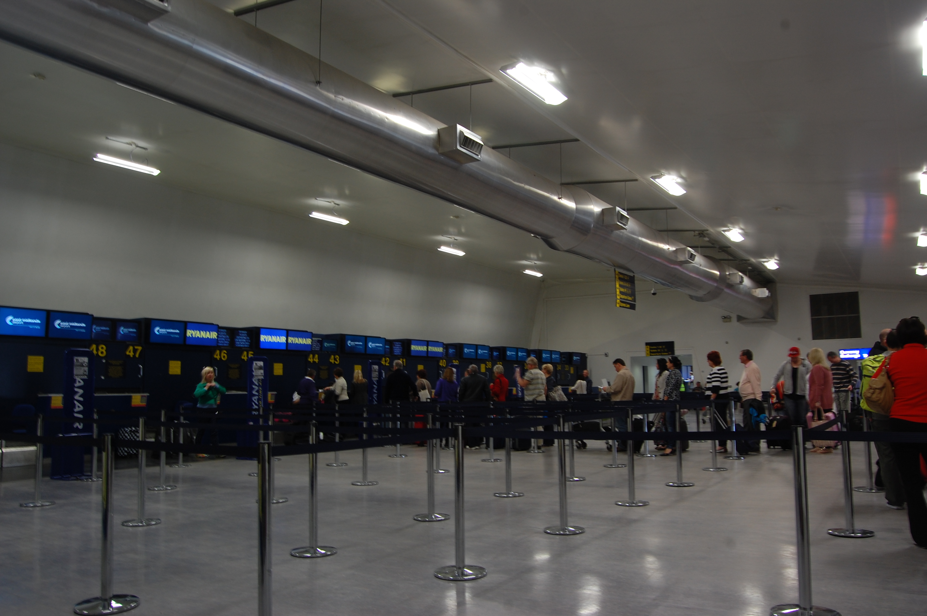 The departure hall at East Midlands Airport, England. Basically, it's a tin shed.